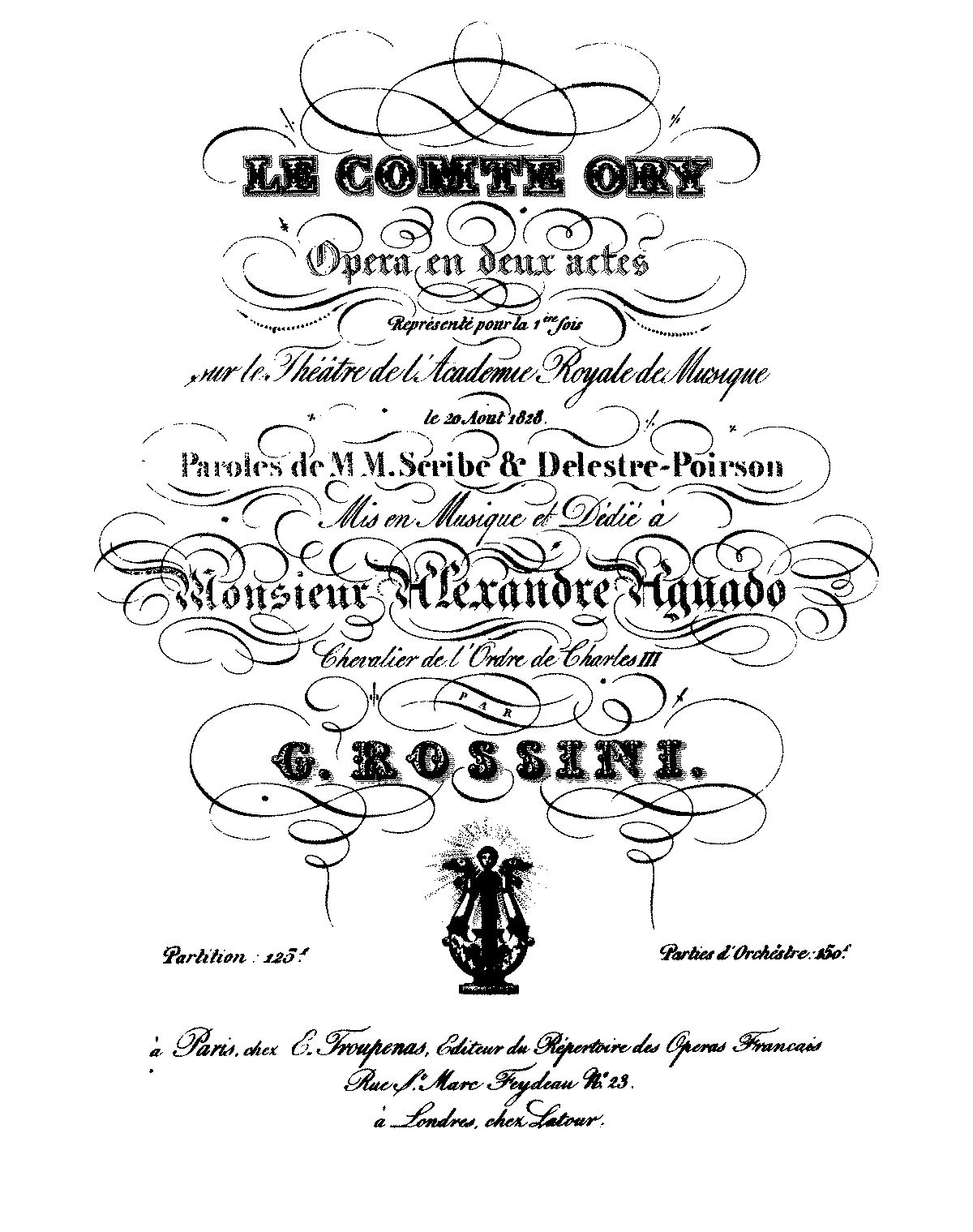 Gioachino Rossini - Le comte Ory - titlepage of the score - paris 1828